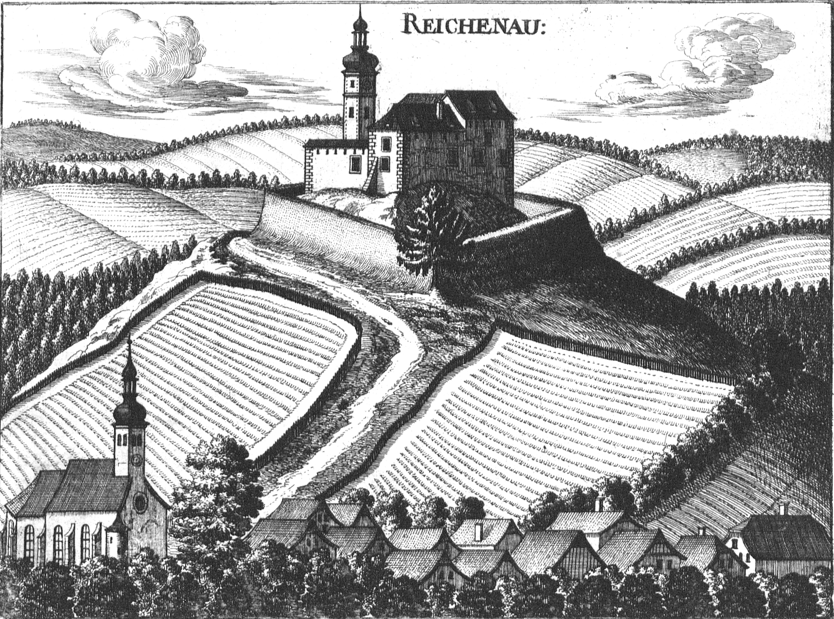 Castle Reichenau in Upper Austria, drawn by M. Vischer 1674.